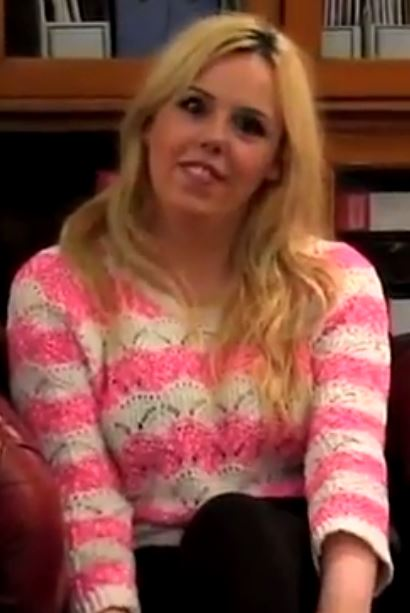 Cropped video still of Roisin Conaty, British comedian, in an interview with Waffle TV at Glasgow University Freshers Week 2012